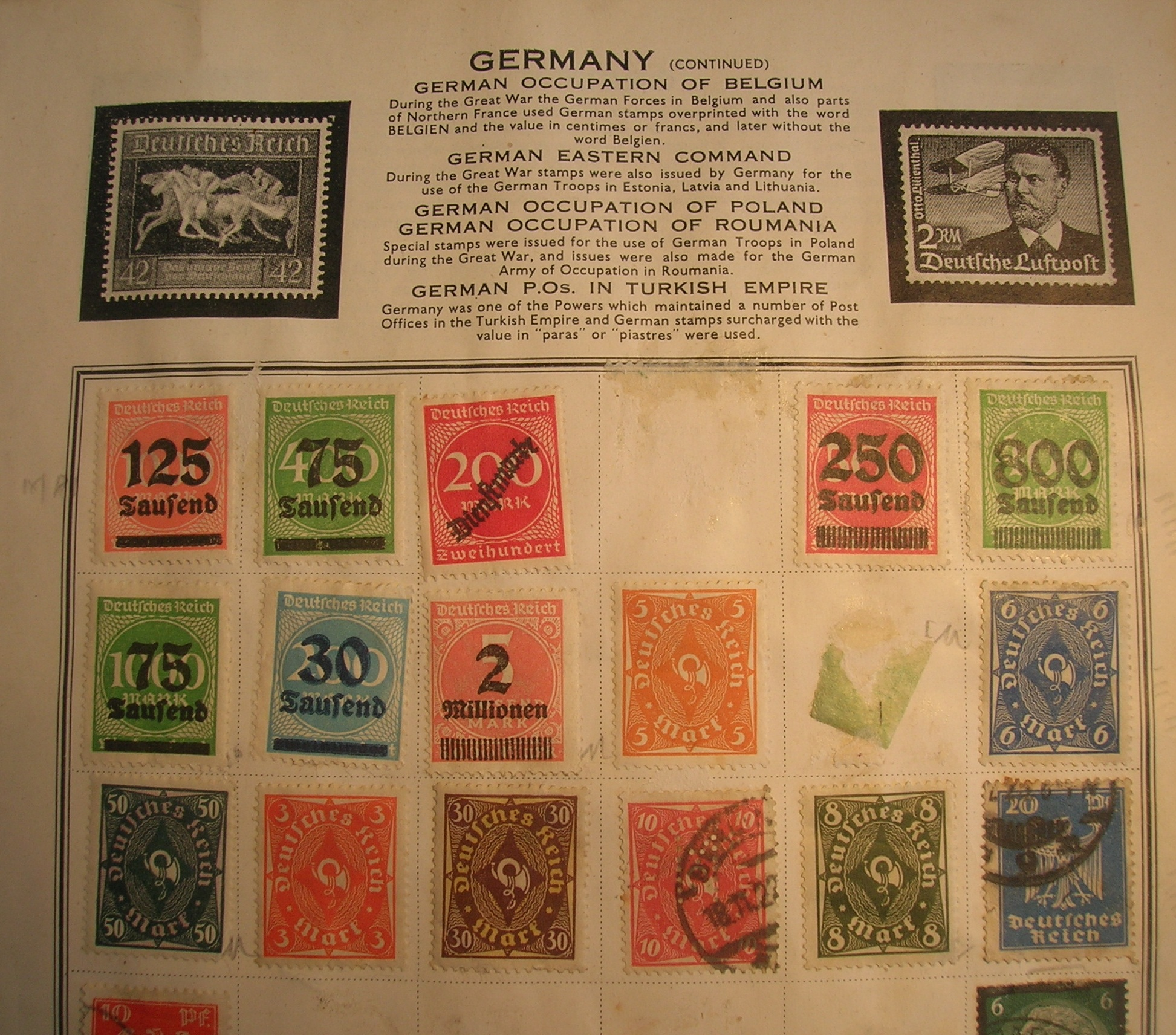 Detail from 1930s album: 1930's stamp album page containing German Empire stamps.